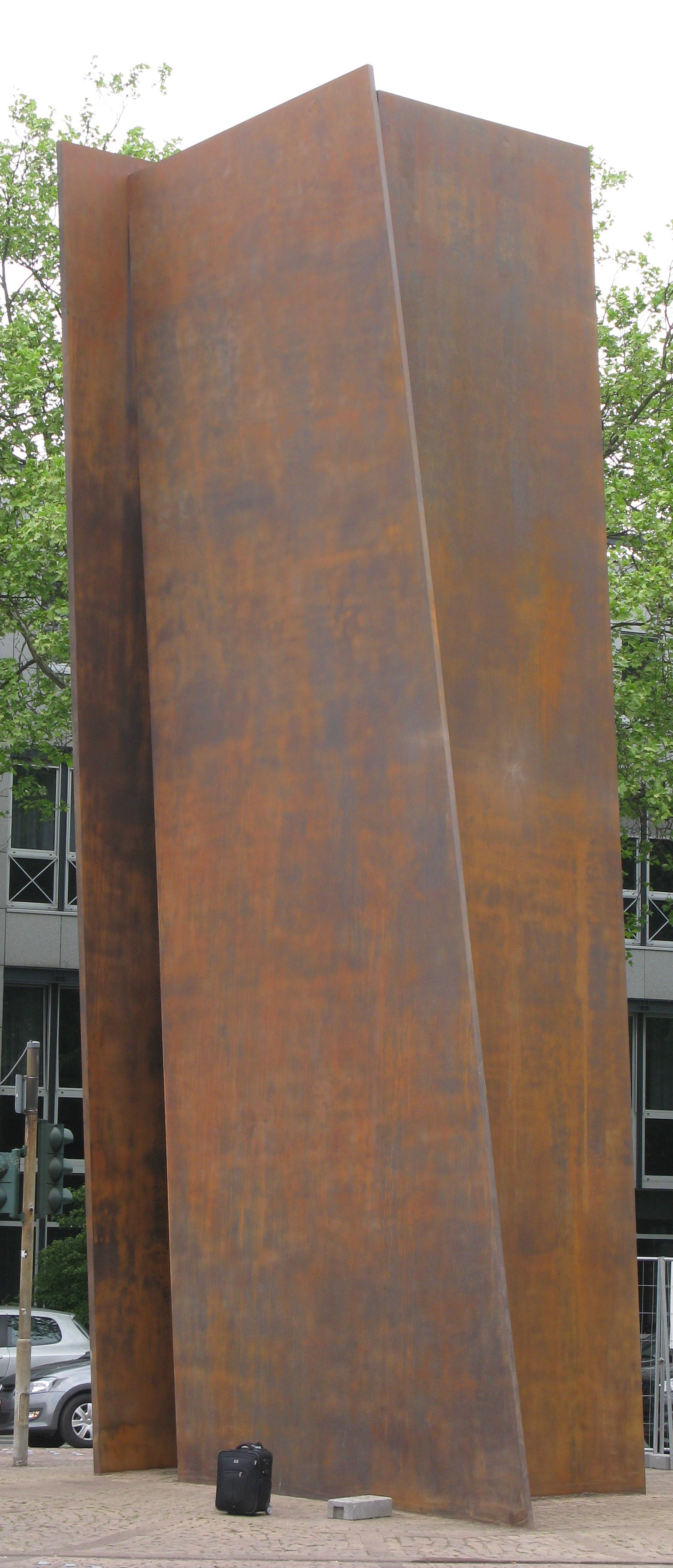 Cor-Ten steel sculpture "Terminal" 1977 by Richard Serra; location Bochum/Germany in front of Hbf main railway station; after cleaning and restauration in Apr 2014